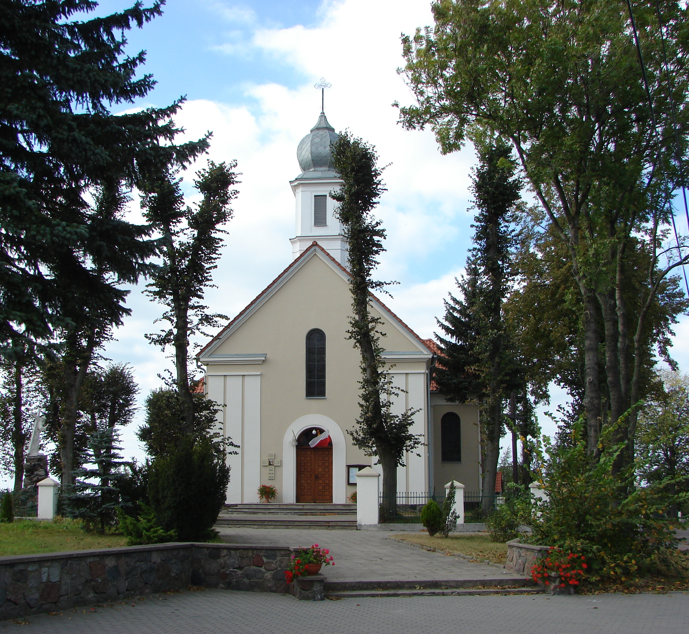 Łążyn, Gmina Obrowo, parish church of Saints Peter and Paul, built 1848